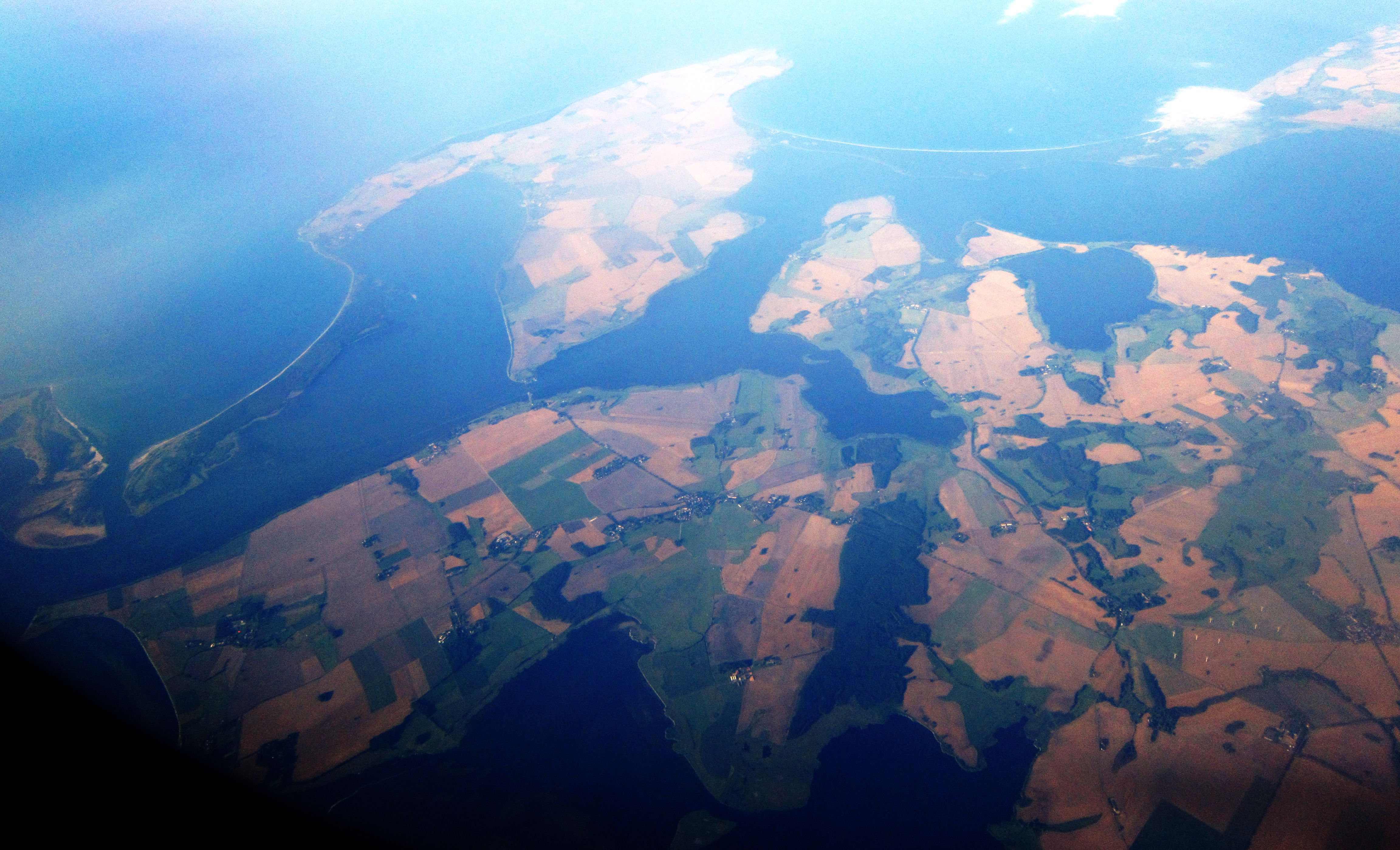 water bodies: Großer Jasmunder Bodden (right), Wieker Bodden (middle left), West Rügen Bodden (bottom); land areas: Wittow (top left), Schaabe (top right); natural reserves: Neuendorfer Wiek and Beuchel Island Nature Reserve (center), Naturschutzgebiet Tetzitzer See mit Halbinsel Liddow und Banzelvitzer Berge (middle right)